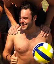 This file is a cropped version of File:Albatraoz in 2014.png AronChupa during a holiday trip with his swedish pop group Albatraoz at Strand Hotel in Borgholm, Sweden, in 2014.